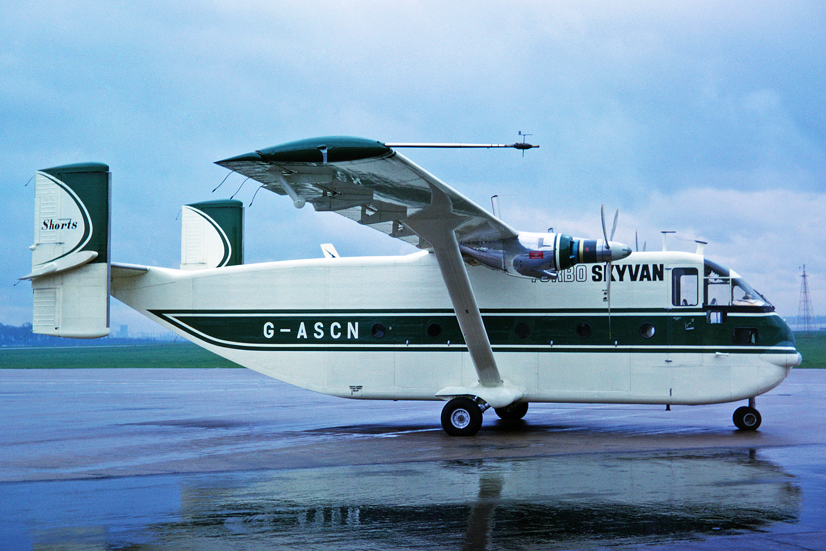 Prototype Skyvan with those original tiny and underpowered Astazou engines.